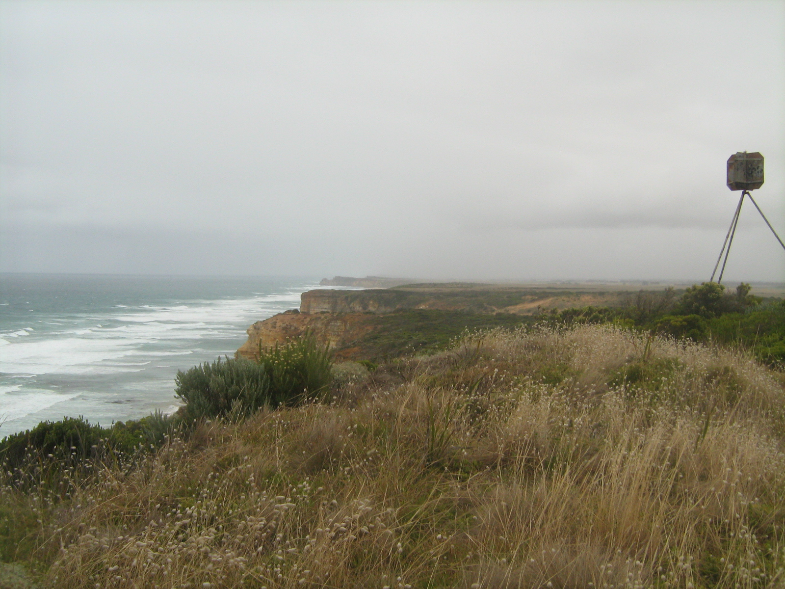 The view from the summit of Flaxmans Hill, Victoria, Australia. Flaxmans Hill is located within the Bay of Islands Coastal Park about 13 kilometres from Peterborough.